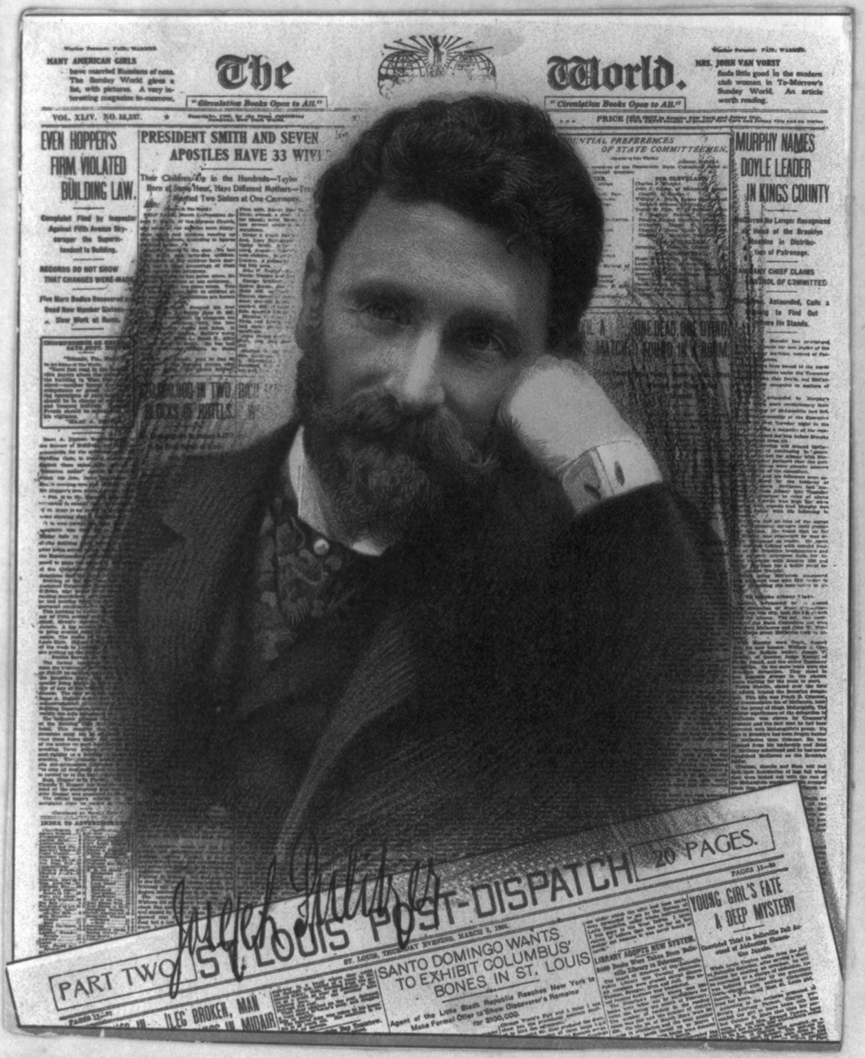 Joseph Pulitzer, chromolithograph superimposed on composite front cover of his newspapers